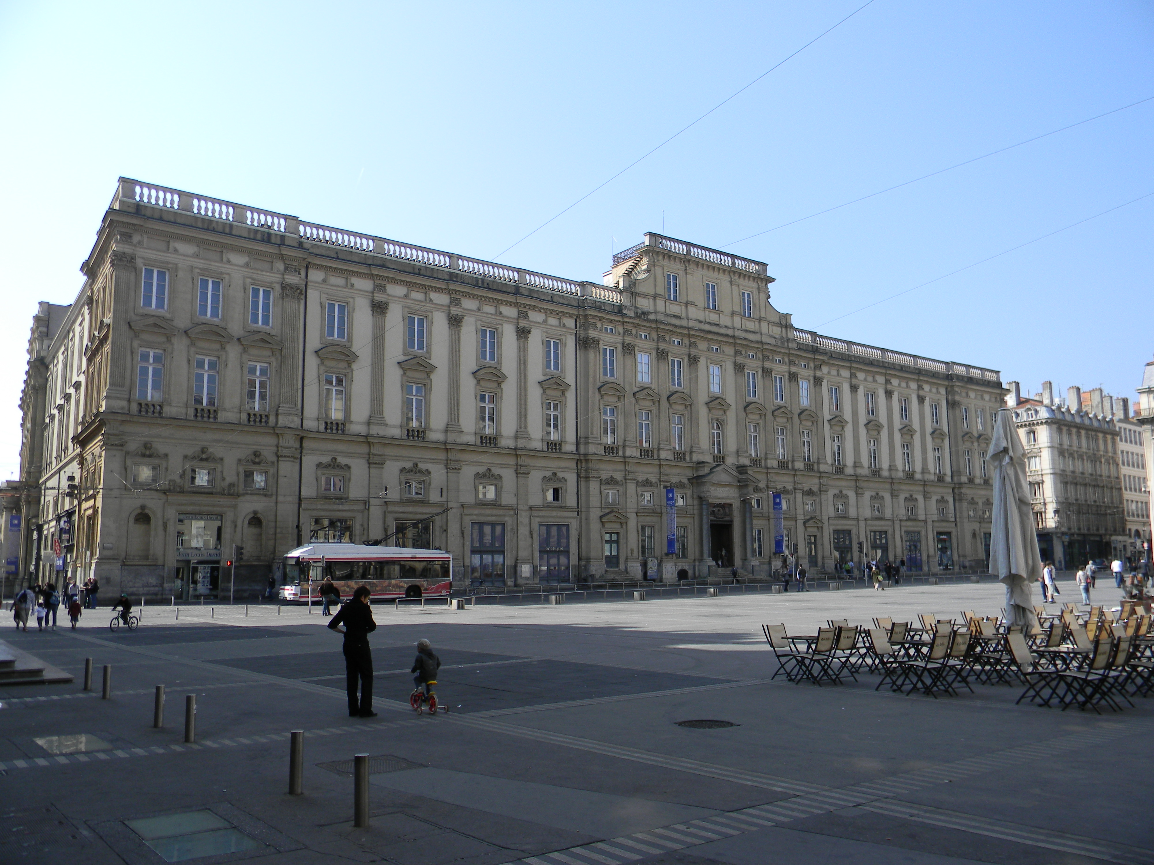 The museum of fine arts of Lyon.